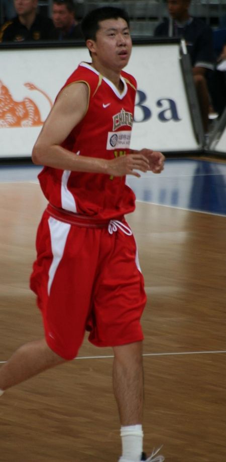 Basketball game, Germany-China, Mannheim, Germany on Aug. 19, 2007 I hope I do not mistakenly post my pictures here. I do think it is relevant to the Chines red. What is your opinion?